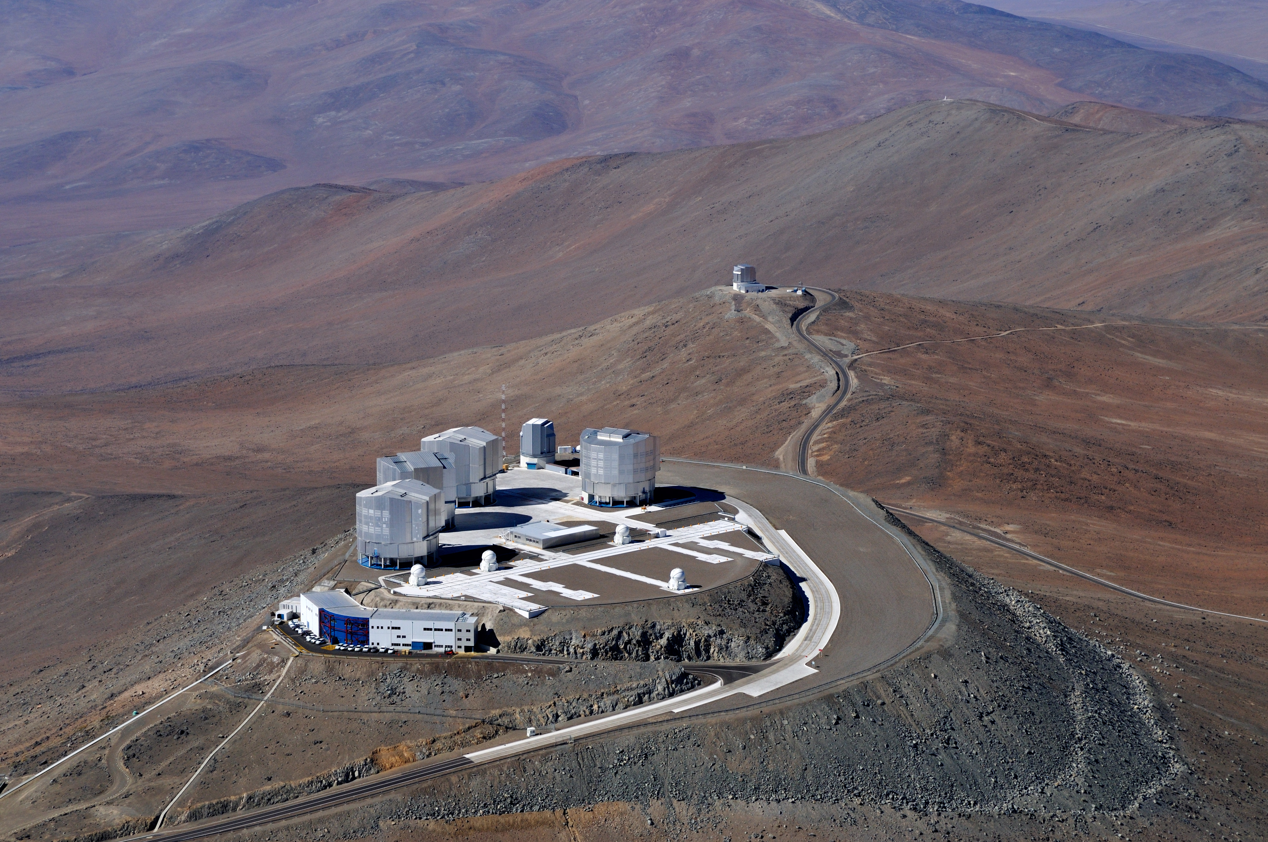 A bird soaring over the remote, sparsely populated Atacama Desert in northern Chile — possibly the driest desert in the world — might be surprised to come upon the technological oasis of ESO’s Very Large Telescope (VLT) at Paranal. The world’s most advanced ground-based facility for astronomy, the site hosts four 8.2-metre Unit Telescopes, four 1.8-metre Auxiliary Telescopes, the VLT Survey Telescope (VST), and the 4.1-metre Visible and Infrared Survey Telescope for Astronomy (VISTA), seen in the distance on the next mountain peak over from the main platform. This aerial view also shows other structures, including the Observatory Control Room building, on the main platform’s front edge.